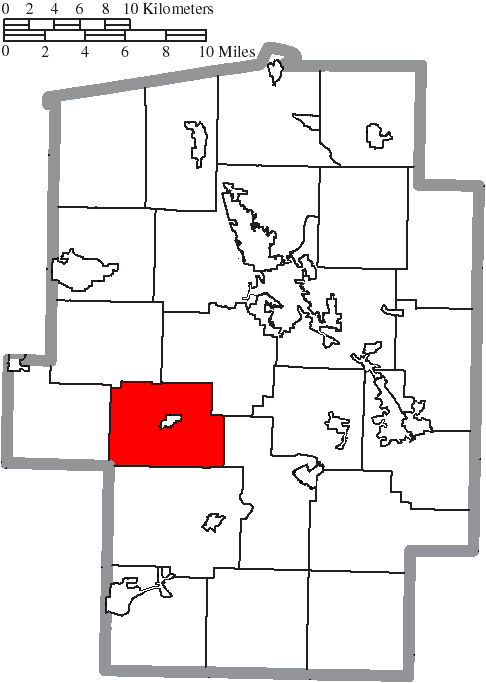 Map of the municipal and township boundaries of Tuscarawas County, Ohio, United States, as of the 2000 census, with the location of Jefferson Township highlighted. Township borders are shown only in unincorporated areas in order to differentiate incorporated and unincorporated areas more clearly.